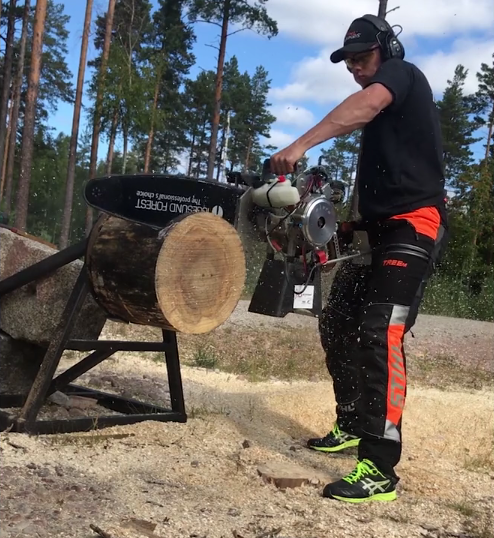 Ferry Svan hot saw practice